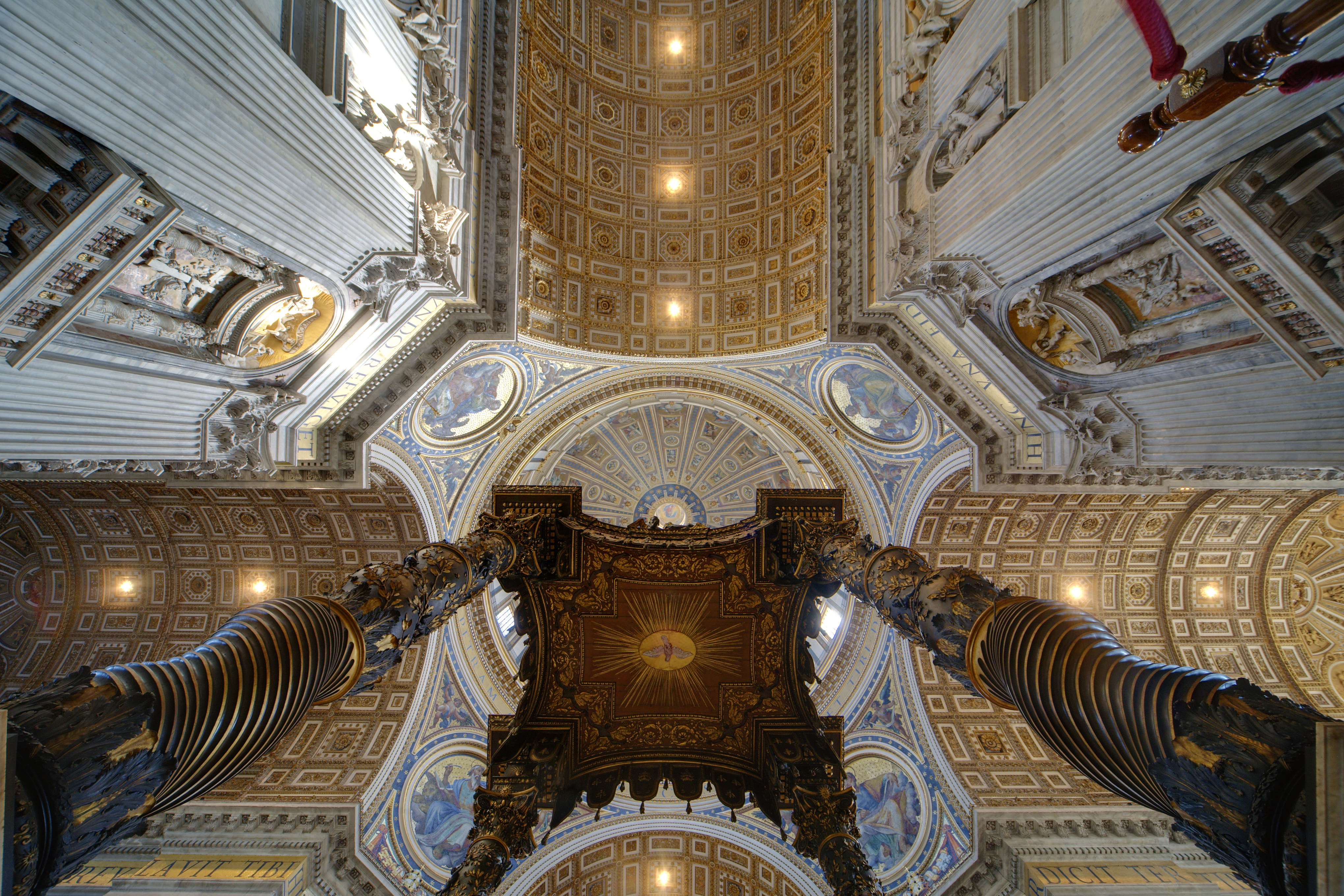 Baldachin of St. Peter's Basilica in the Vatican City